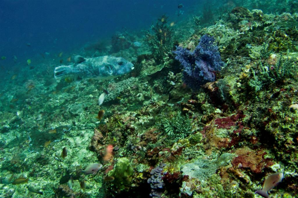 Giant Puffer Fish